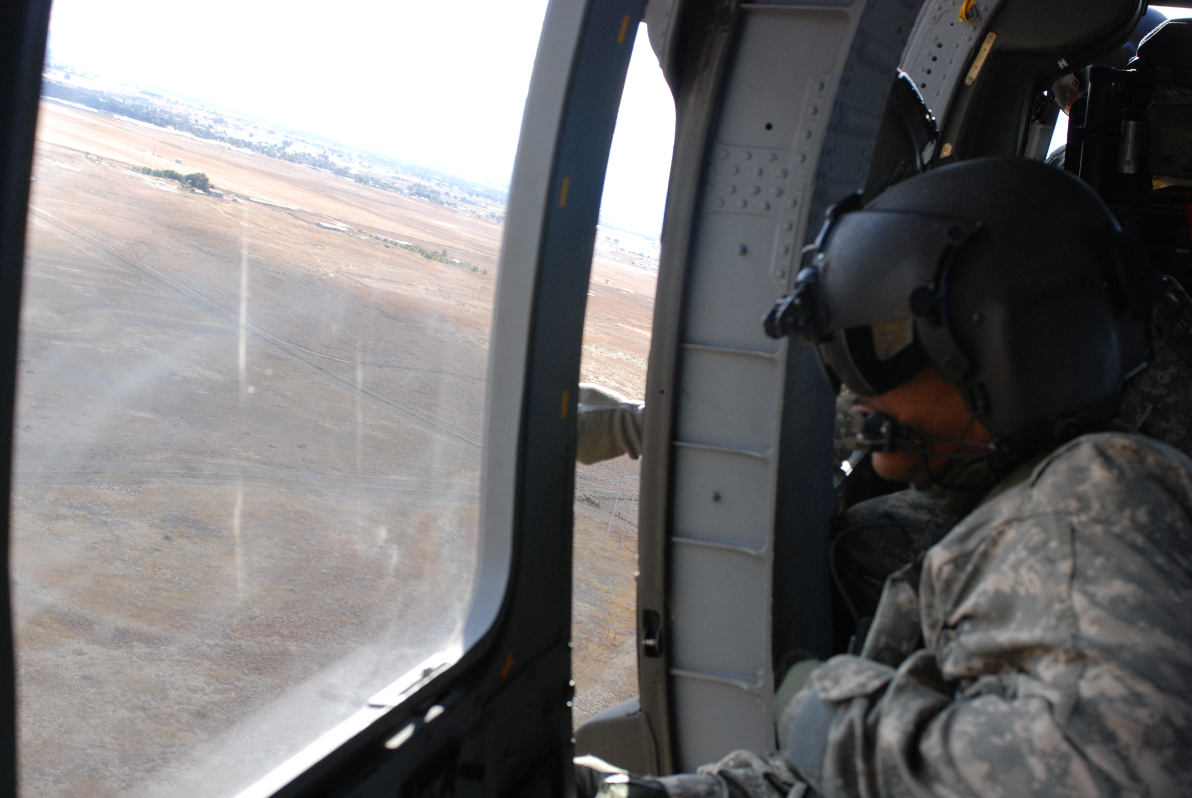 Colorado Army National Guard aviators Staff Sgt. Bryan Scott and Sgt Nick Cornelius search for 6-year-old Falcon Heene from inside a UH-60 Black Hawk over the skies of northeastern Colorado. The boy reportedly went missing from his home in Fort Collins aboard a homemade helium balloon Oct. 15. Unit: Colorado National Guard